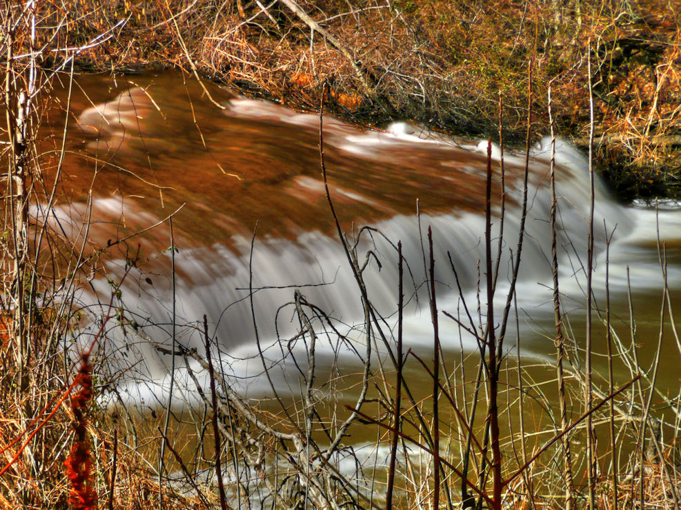 Waterfall in the city of Tinton Falls.